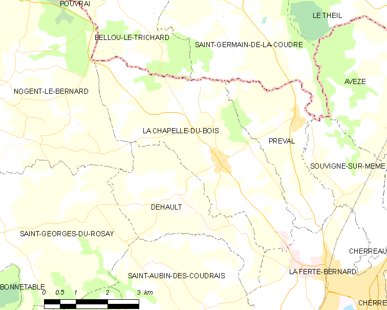 Map of French municipality